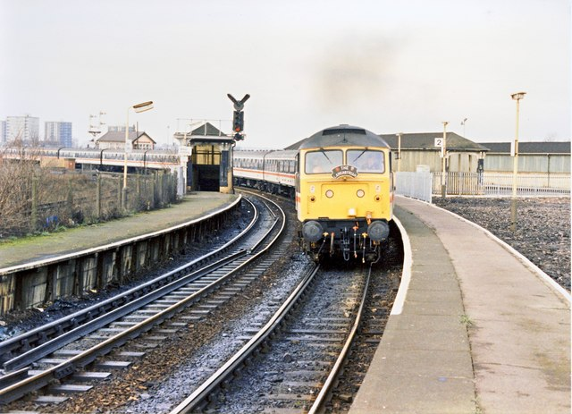 Miles Platting railway station Original description: Miles Platting station (Ashton platforms) 1989 The very tight curve of the branch line to Ashton diverging from the original Manchester-Leeds railway line is readily apparent, as are the long sloping access ramps to each of the platforms. Railway operators may notice that the signalman at Miles Platting Junction has replaced his signals to danger remarkably quickly.